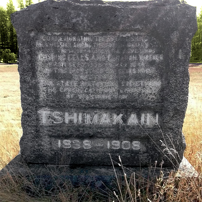 TSHIMAKAIN Marker installed 1908 to commemorate 70th anniversary of Tshimakain's founding. It was moved to its present location just off highway 231 in the 1930s. Location is in Tumtum Washington.